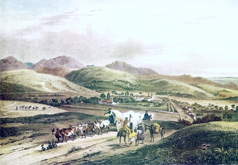 Town of Bom Jesus de Matosinhos, nowadays a neighborhood of São João del Rey city, Minas Gerais